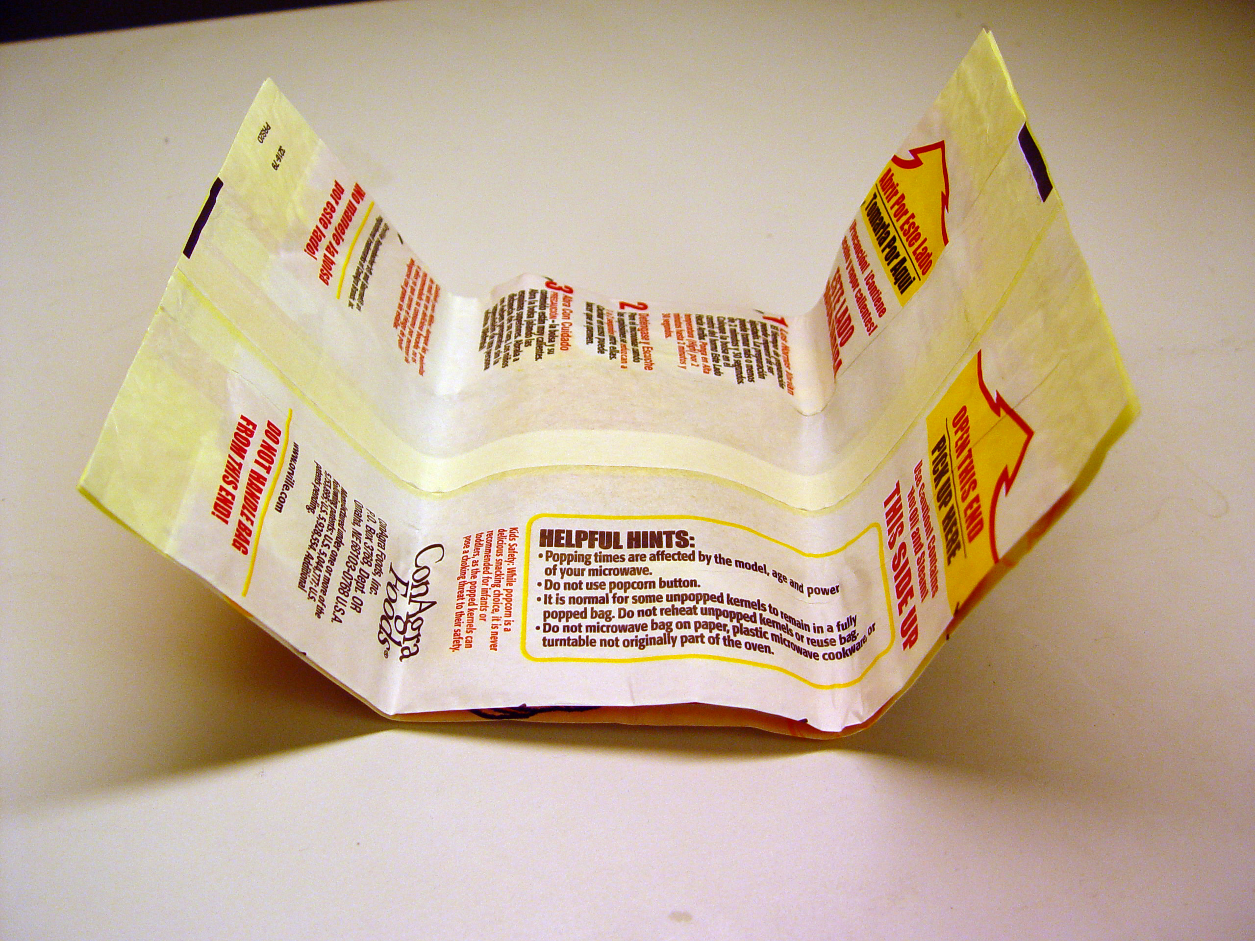 Popcorn bag for microwave ovens, unpopped state.